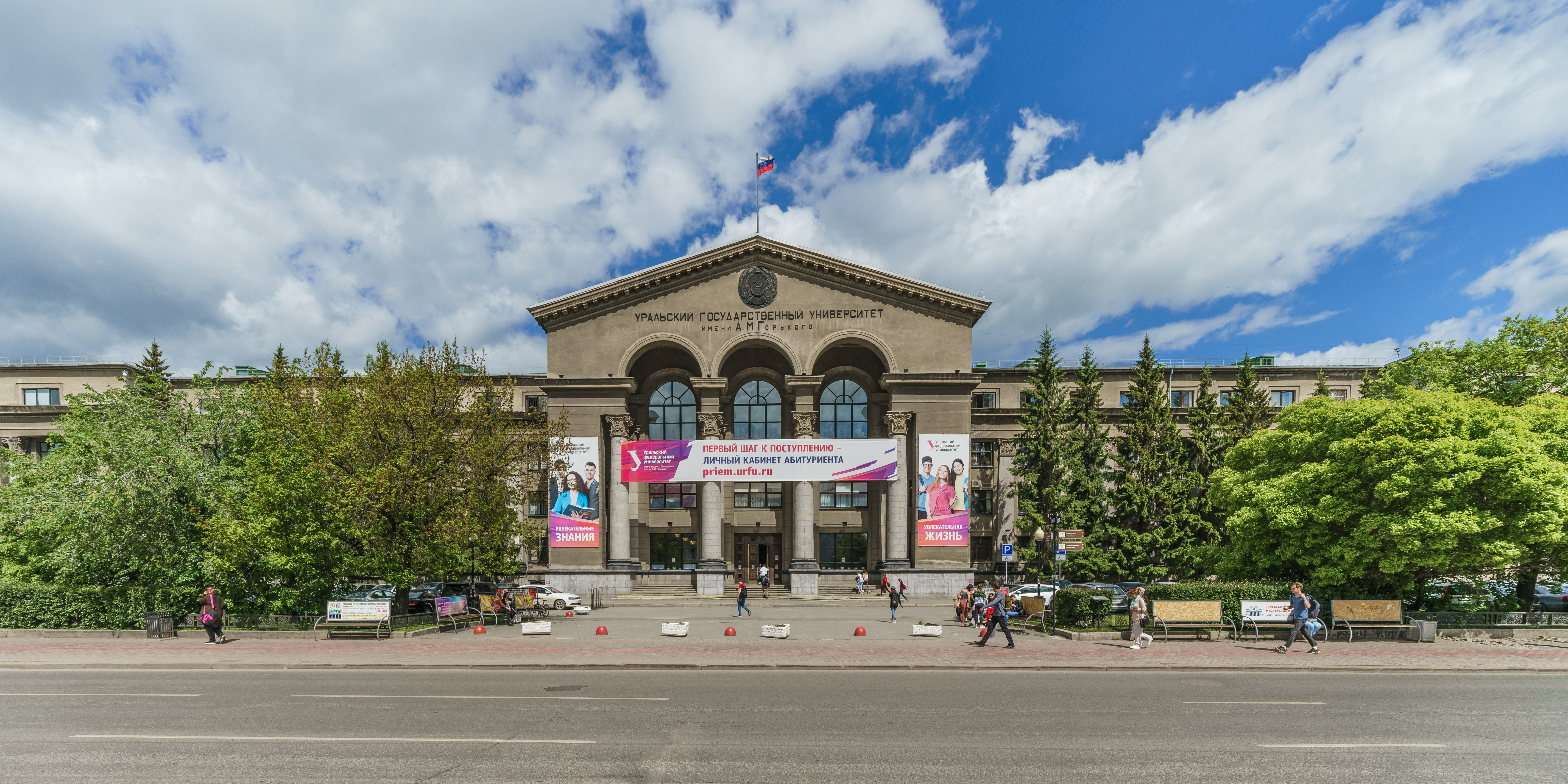 Building of Ural Federal University (Lenina Avenue 51) in Ekaterinburg, Russia